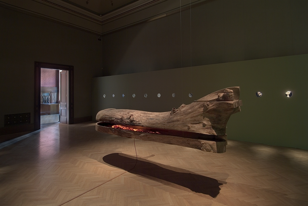 Exhibition of František Skála